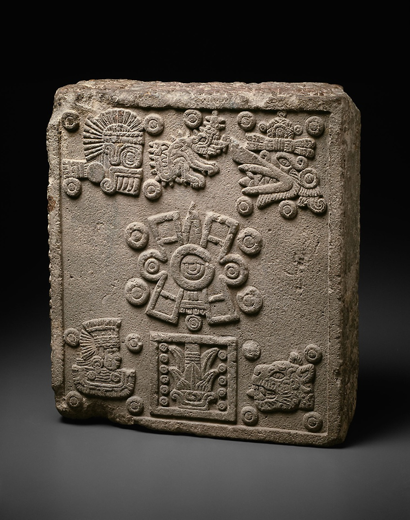 This stone depicts the five suns, and was created to commemorate the Emperor Motecuhzoma II. Further information available from the host at